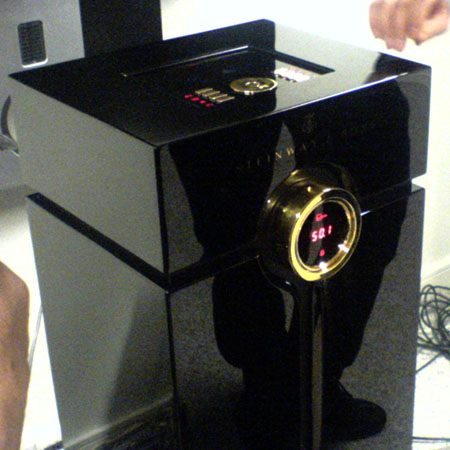 Steinway Lyngdorf Model D audio system head unit (viewed from the front left side).